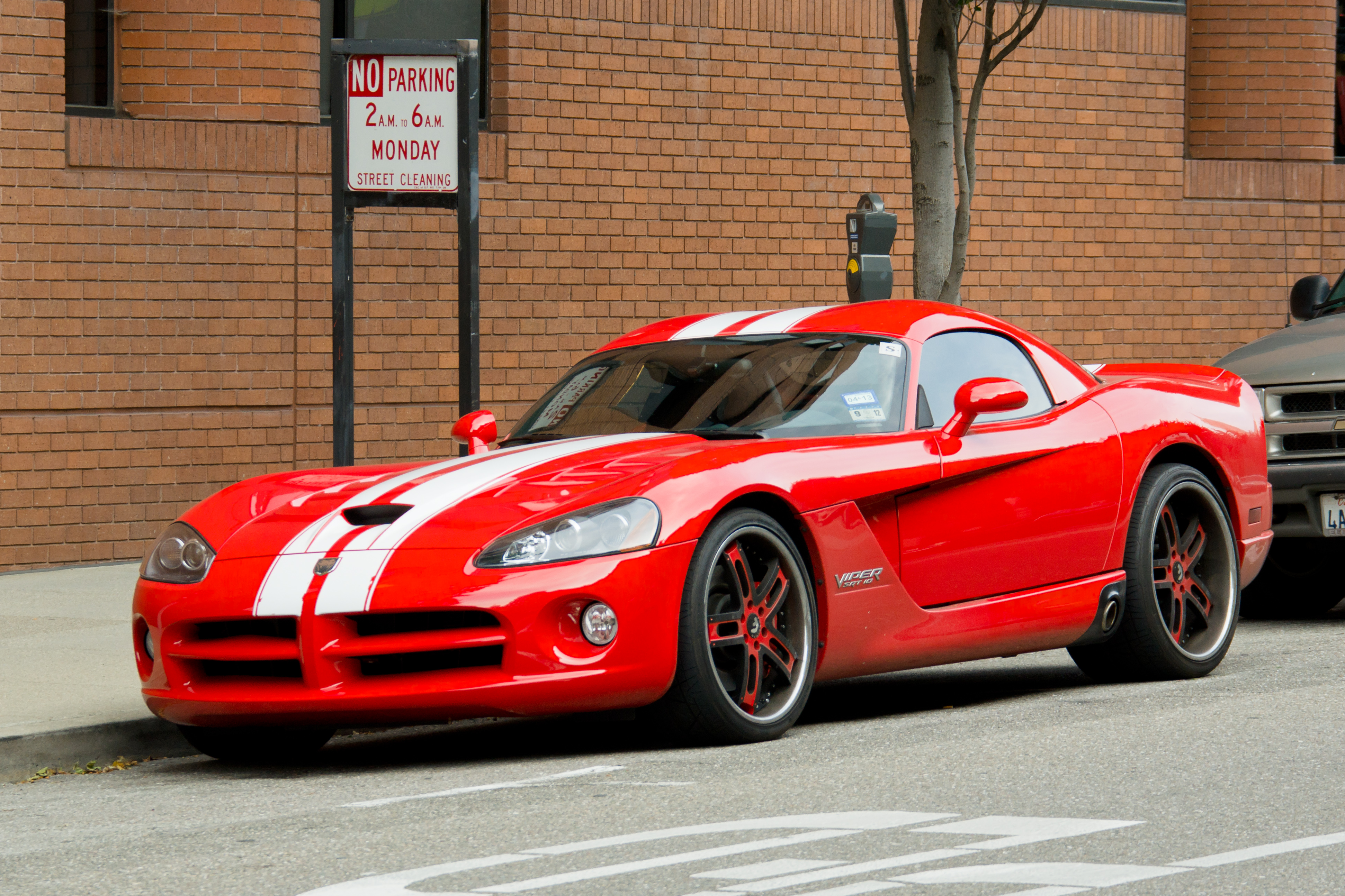 A red Dodge Viper SRT-10 at Sansome St., San Francisco.